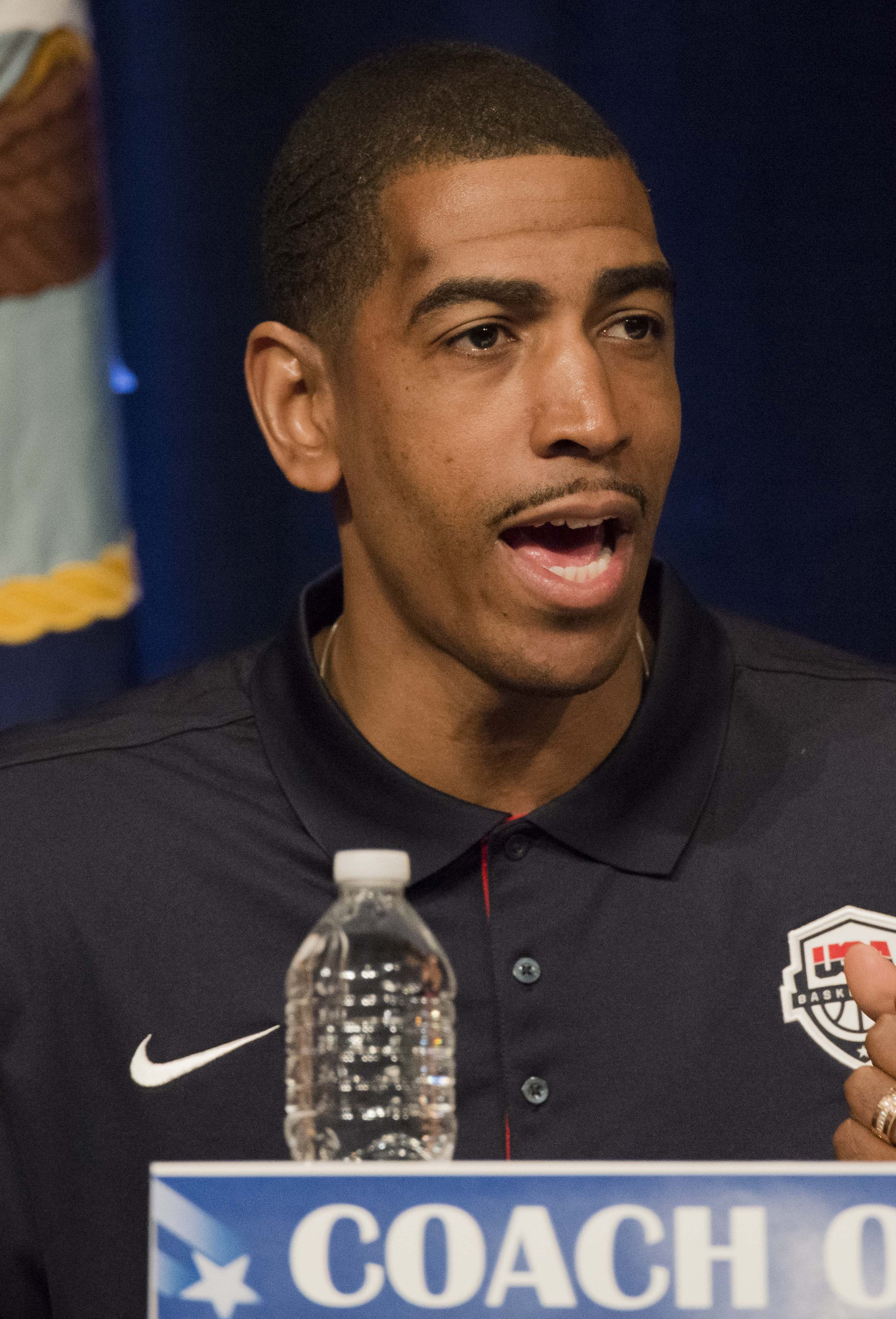 Kevin Ollie, Connecticut Huskies men's basketball head coach, speaking at the Sports Leadership Seminar at the Pentagon, May 2014